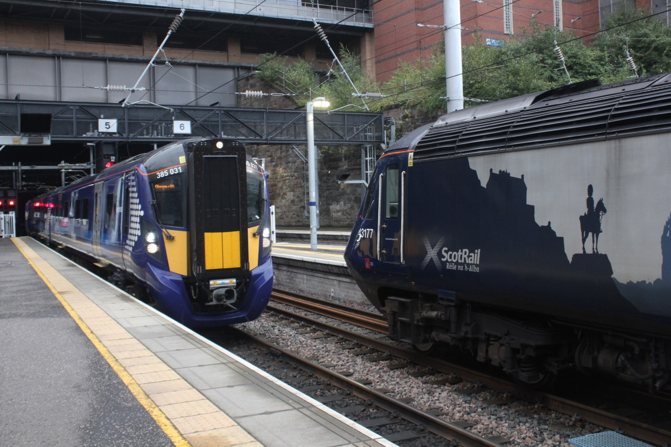 Electric unit 385031 arrives at Glasgow Queen Street with a morning rush hour service from Alloa. In the next platform is High Speed Train 43177 which had recently arrived from Aberdeen